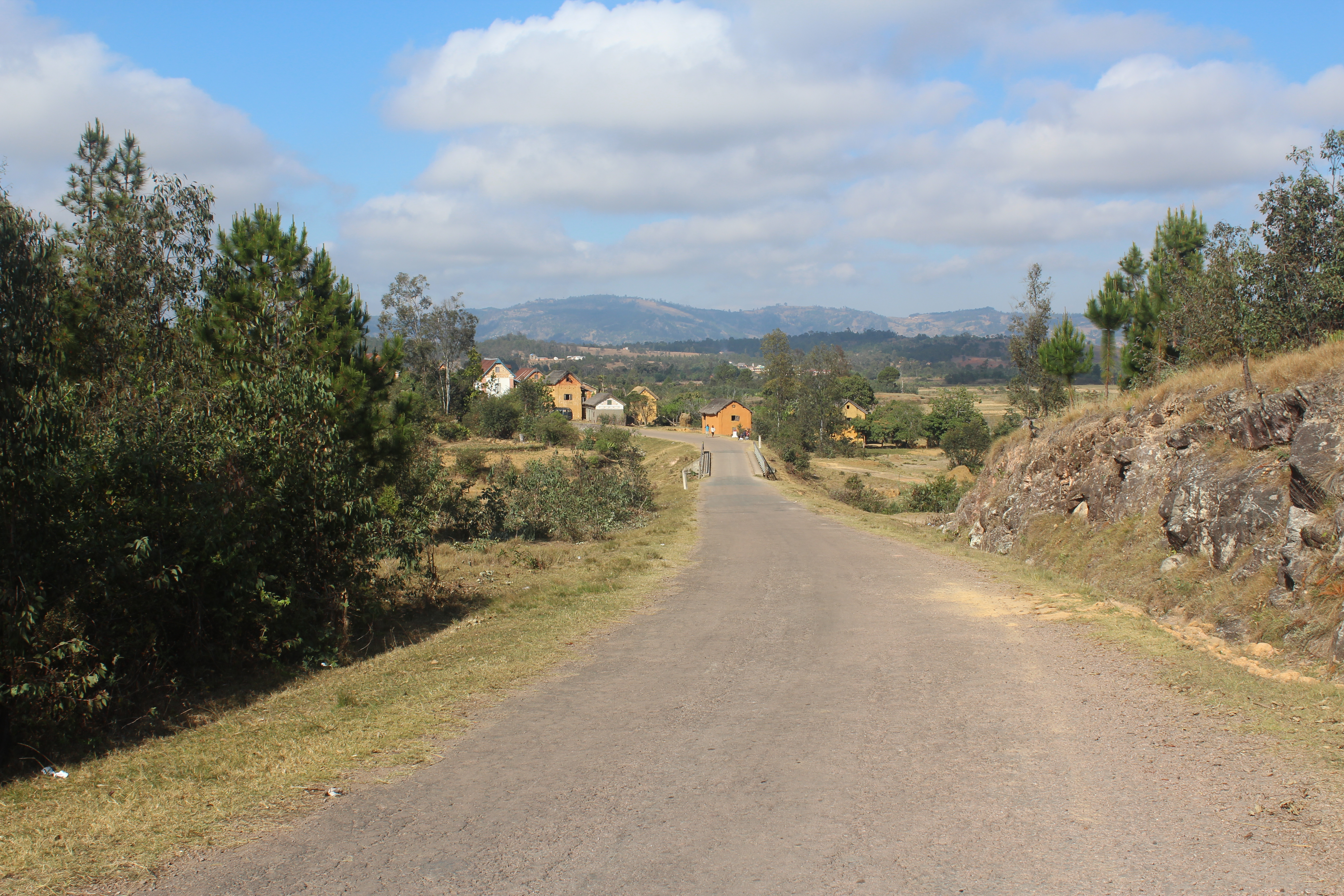 National road 41 in Madagascar, about 6 km northnortheast of Sandrandahy, view in SW direction